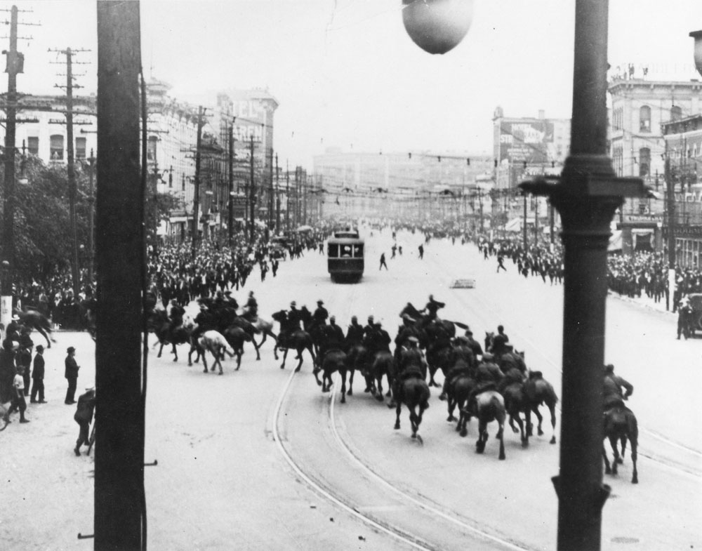 Royal North West Mounted Police operations in Winnipeg General Strike, 1919; turning left on William Street towards City Hall, shortly before firing into the crowd (Horrall 1973, p.178)